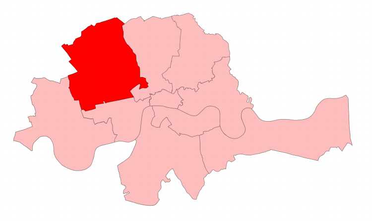 A map of Marylebone constituency within the Metropolitan Board of Works area, as it existed from 1868 to 1885.